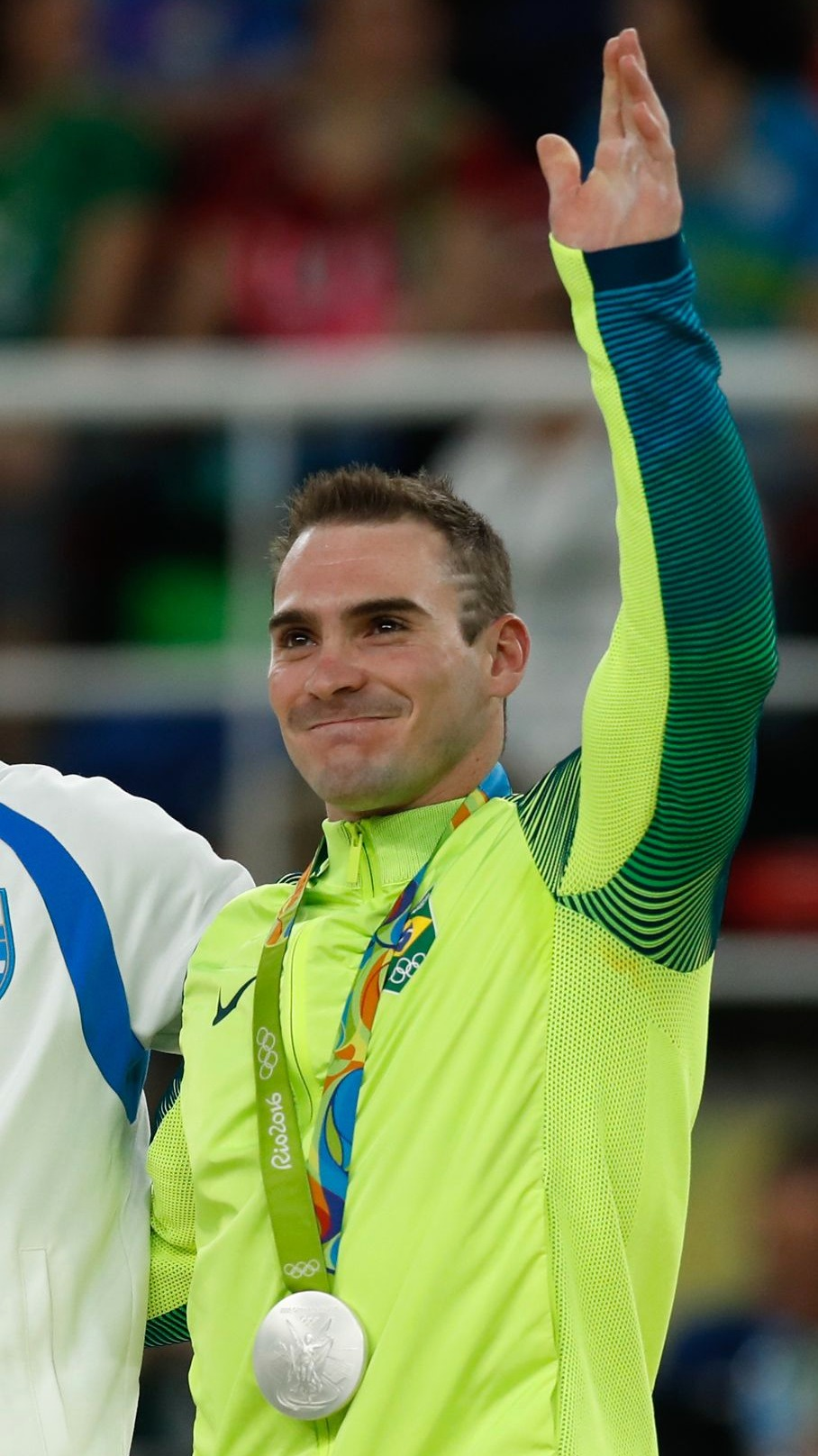 Competitions in gymnastics at the Olympics 2016. Discipline - rings.